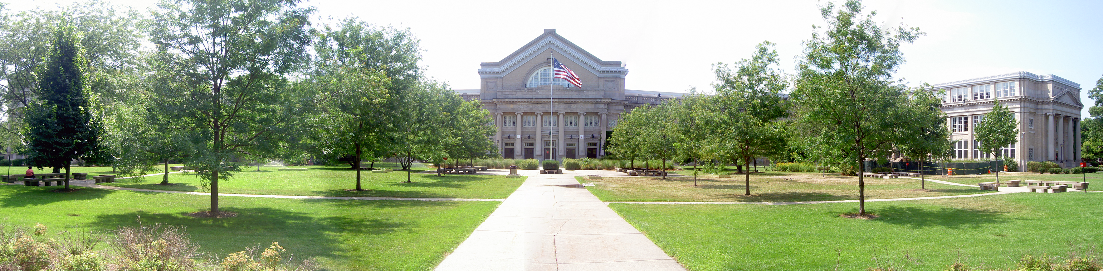 Senn High School panoramic